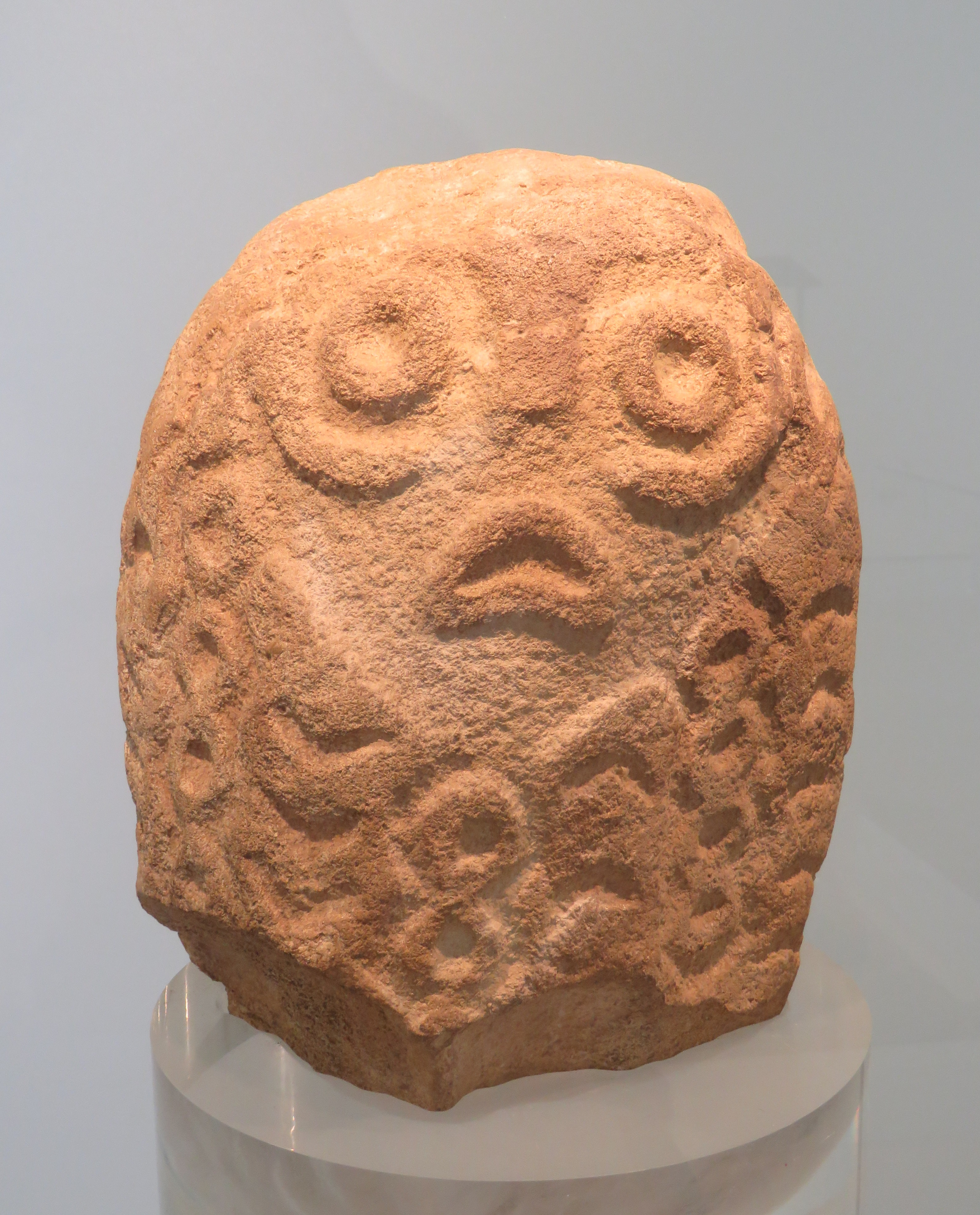 Museum Lepenski Vir, sculpture Undine, quartz sandstone, 6300 - 5900 BCE